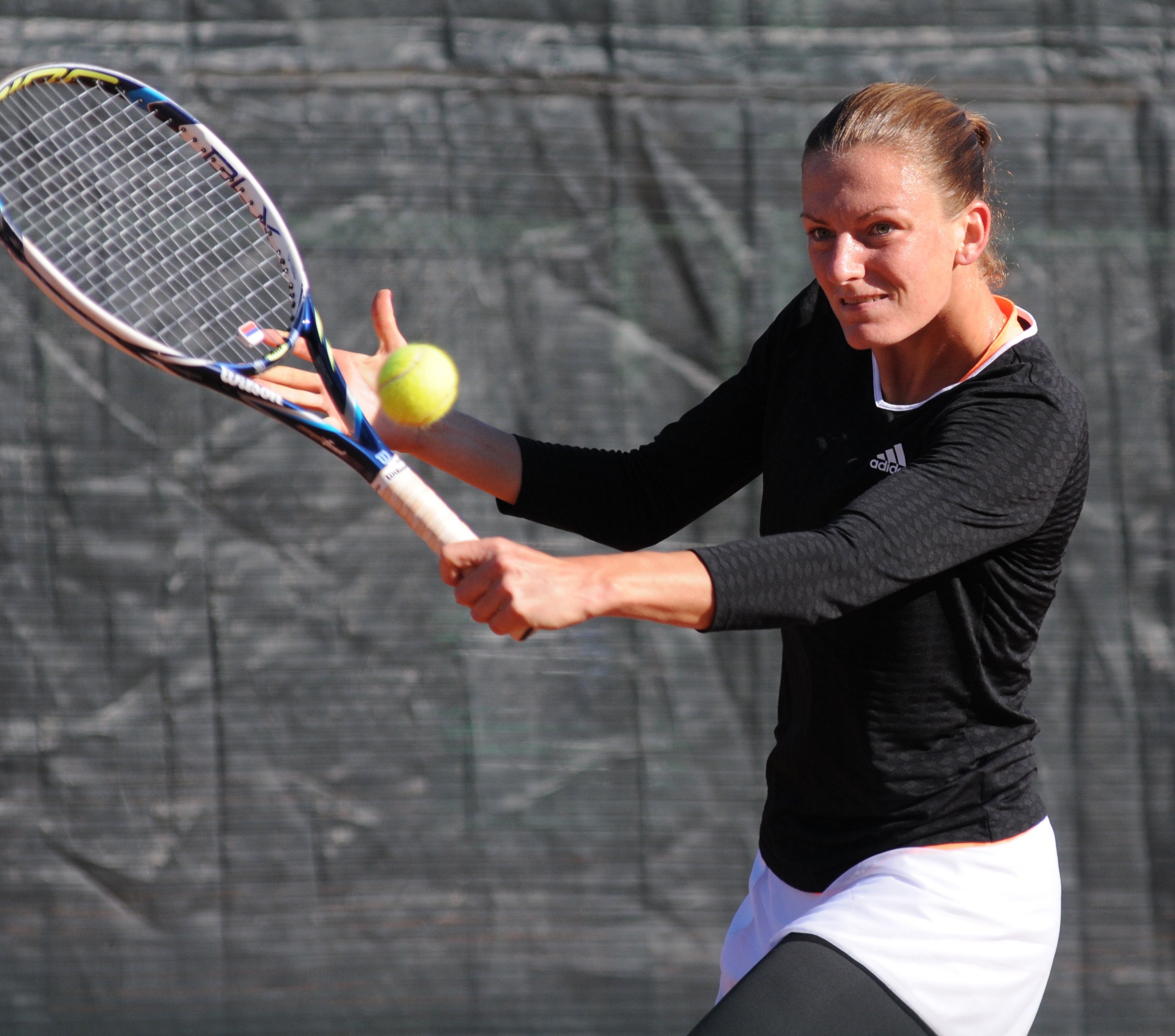 Xenia Knoll at the 2014 Moscow Cup